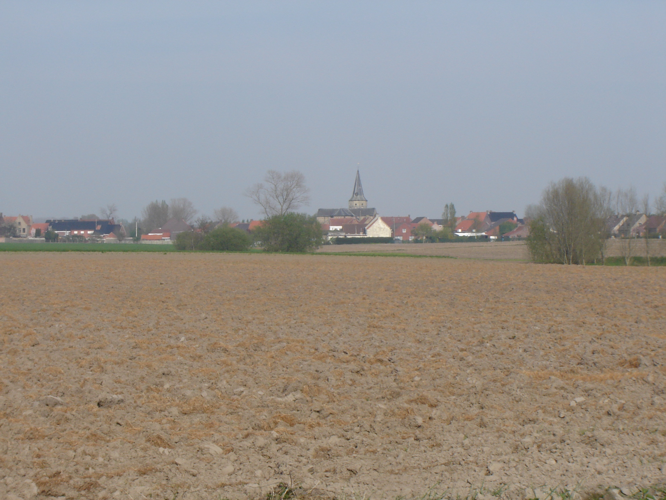 View on Bovekerke, seen from Vladslostraat street. Bovekerke, Koekelare, West-Flanders, Belgium